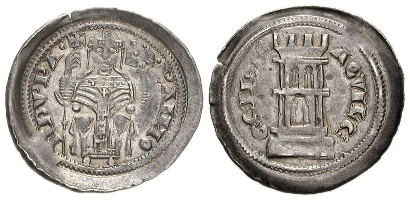 Raimondo della Torre - Patriarca di Aquileia Patriarch, wearing episcopal regalia, seated facing, holding long, gross-tipped staff and book ornamented with five pellets / Two-strorey tower. Cf. CNI 14; Bernardi 27; Biaggi 156. Good VF, areas of light toning. Well-struck for issue.